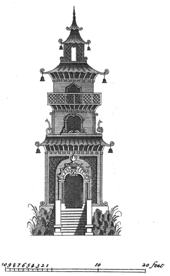 First ever illustration of a gazebo, first use of the word also. Book describes it as "Plate LV, The Elevation of a Chinese Tower or Gazebo, situated on a rock, and raised to a considerable Height, and a Gallery round it to render the Prospect more compleat (sic). and the plate itself is titled "The Elevation of a Chinese Gazebo" and illustration itself at book published in 1755, full title: Rural Architecture in the Chinese Taste: Being Designs Entirely New for the Decoration of Gardens, Parks, Forrests, Insides of Houses, & C., on Sixty Copper Plates, with Full Instructions for Workmen ; Also a Near Estimate of the Charge, and Hints where Proper to be Erected (Google eBook)